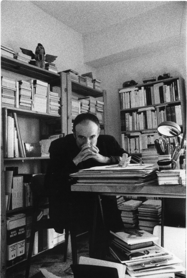 The poet and editor Eduardo Fraile Valles in his studio (Valladolid [1] España, 1996) Barrio de La Circular [2]. Adelina de la Fuente Asensio is the photographer.